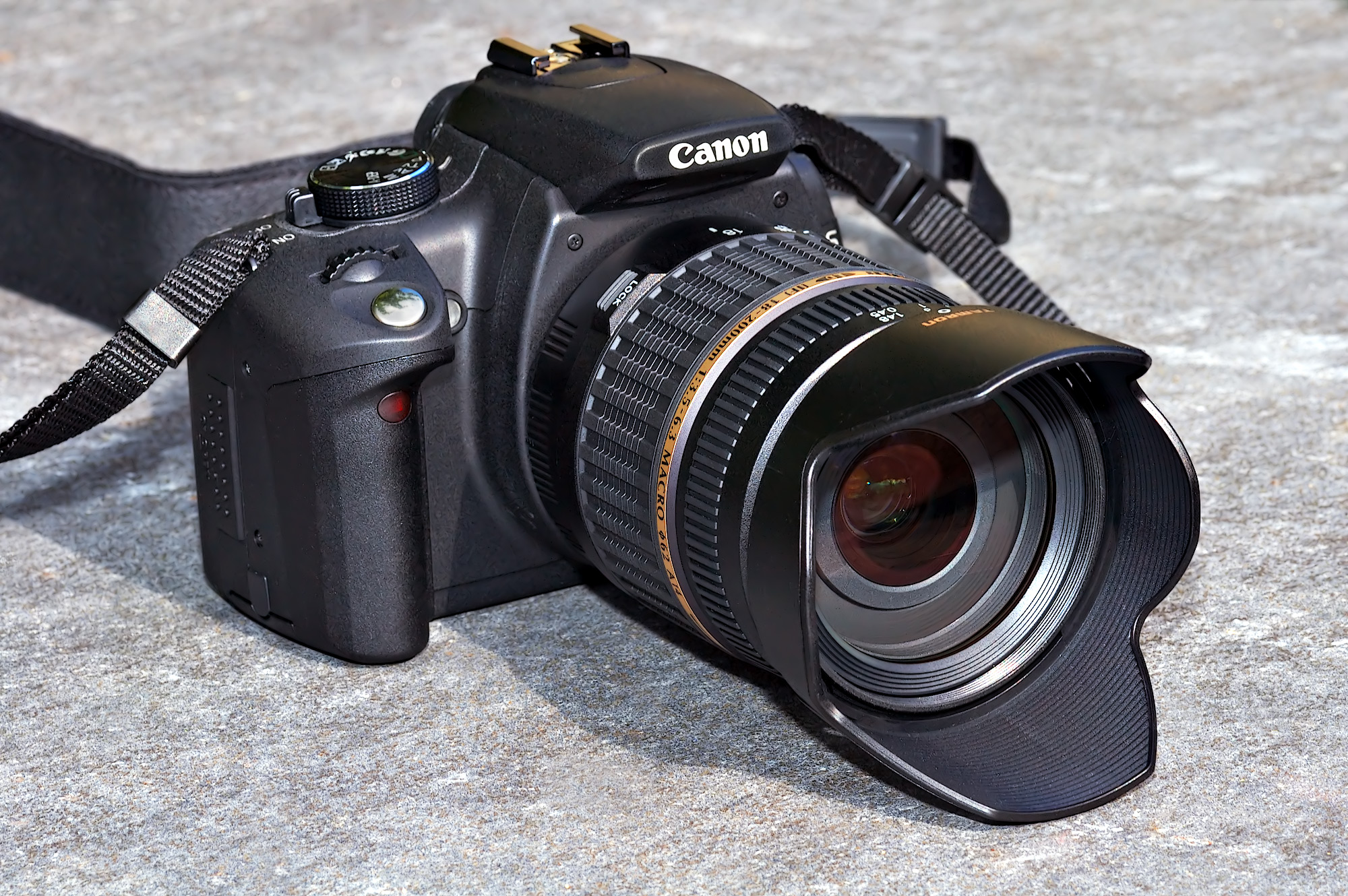 This image shows a Canon EOS 350D digital single-lens reflex camera with a Tamron 18-200 f/3.5-6.3 XR Di II LD lens. Thanks to Andreas Böttger for allowing me to make this photo.